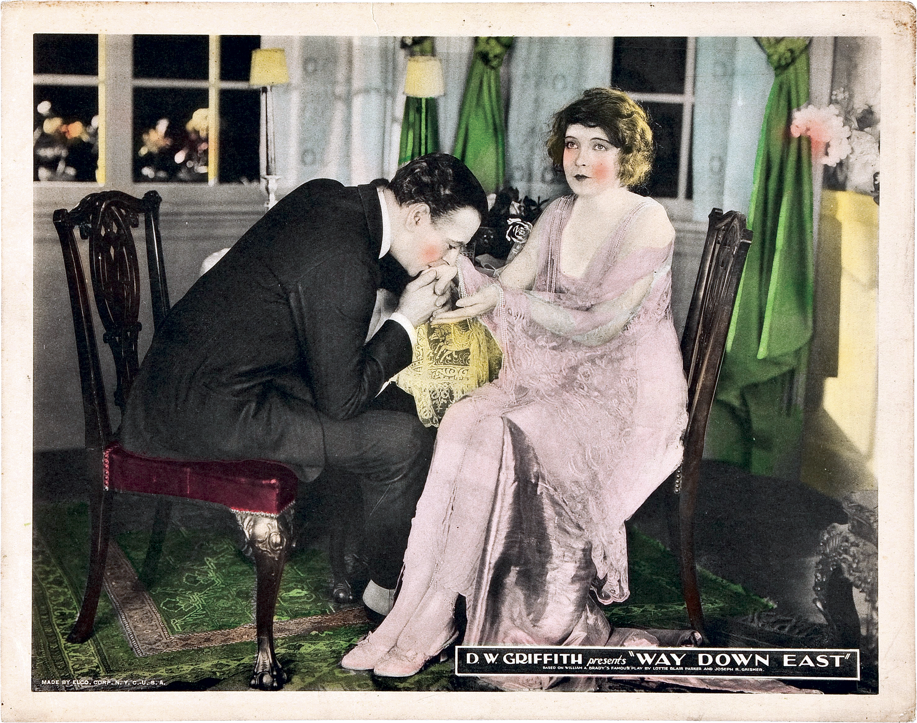 Lobby card for the American film Way Down East (1920).